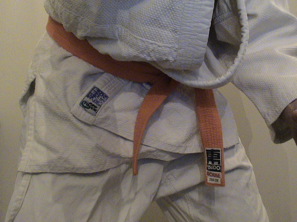 This is me Brusselsshrek, wearing my orange judo belt. 18:05, 18 January 2006 (UTC)